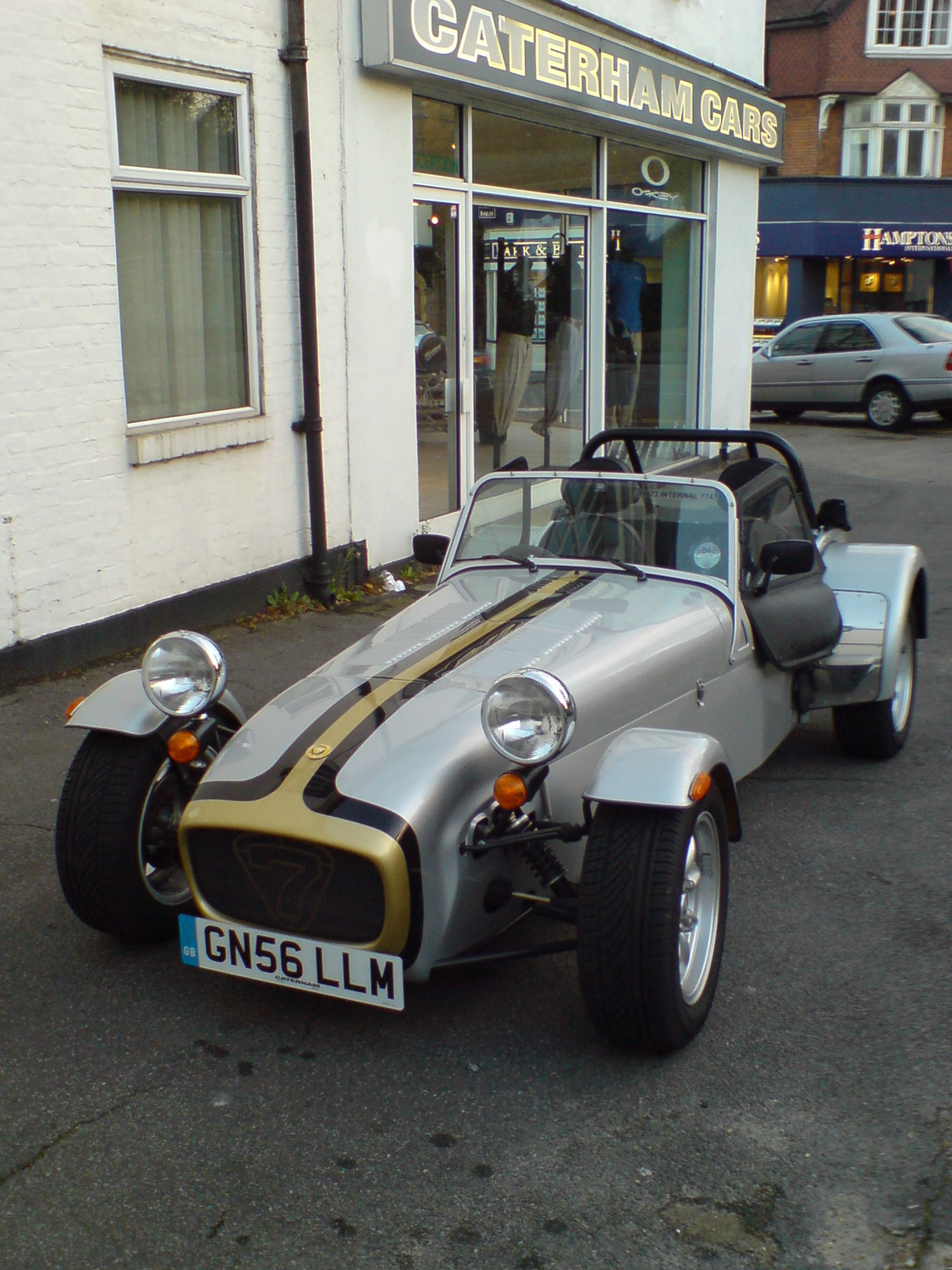 Today I went to Caterham and drove this :-) It is their first demonstrator Roadsport with the Ford Sigma engine. It was only 125bhp and 5-speed but it was great. It has enabled me to finalise the spec of my one ... which I won't get until February 2007 :-(